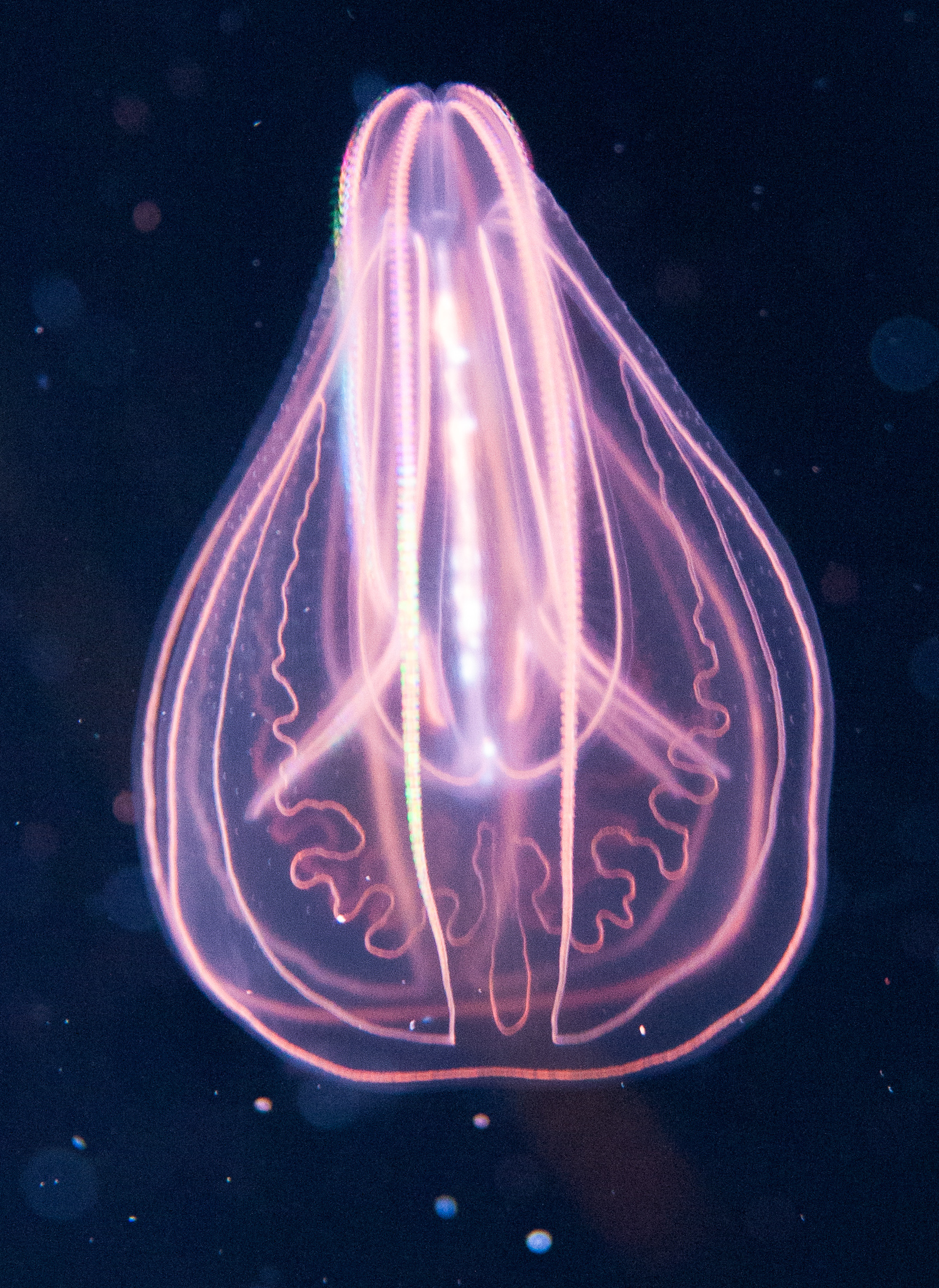 ctenophora